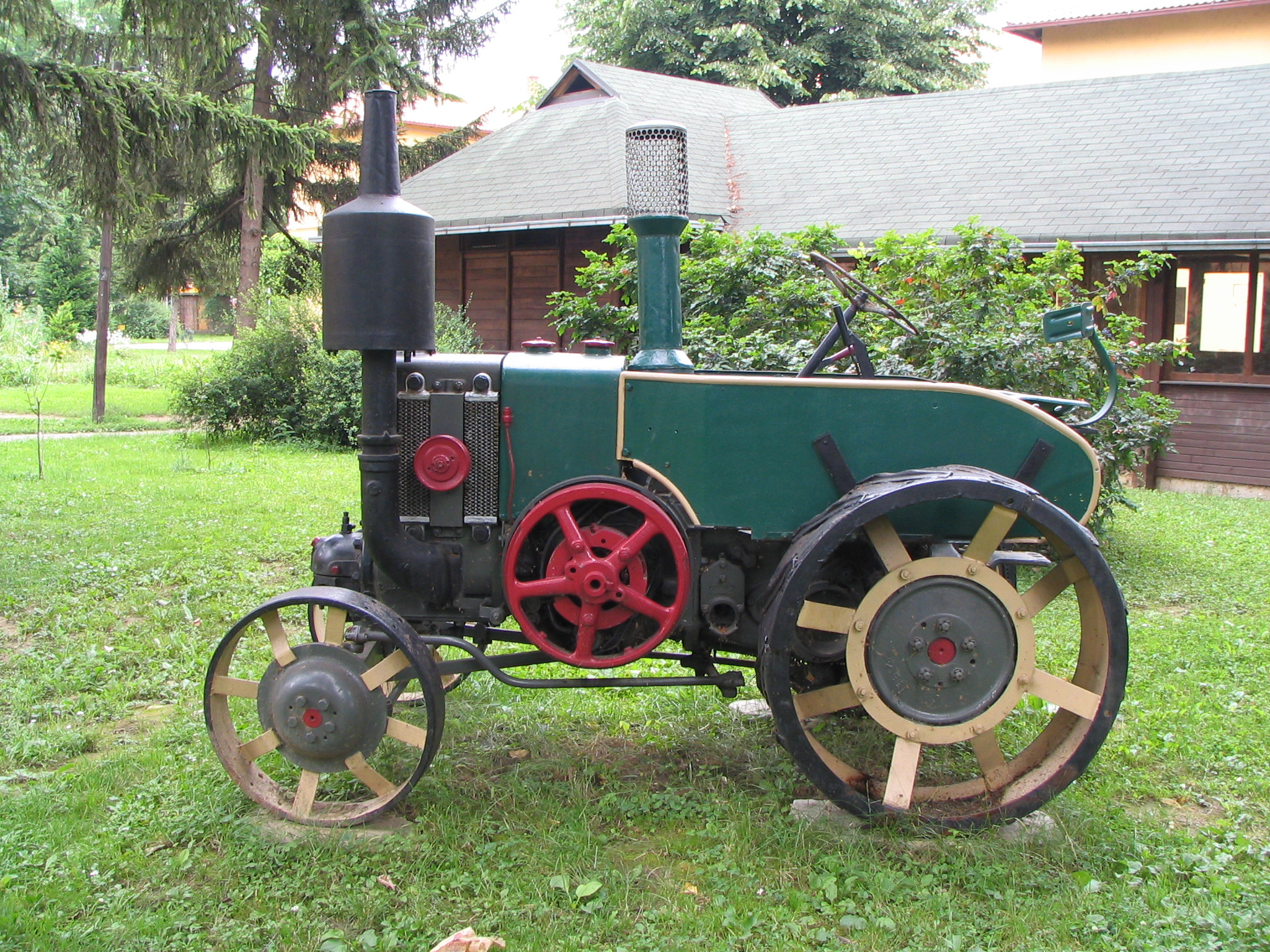 Tractor Lanz Bulldog 1941